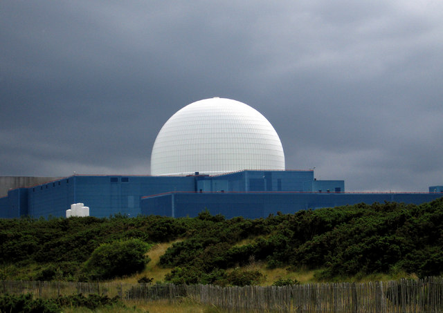 Sizewell B reactor dome This is a surreal place when the weather is like this. For more info on Sizewell power plant Sizewell_nuclear_power_stations